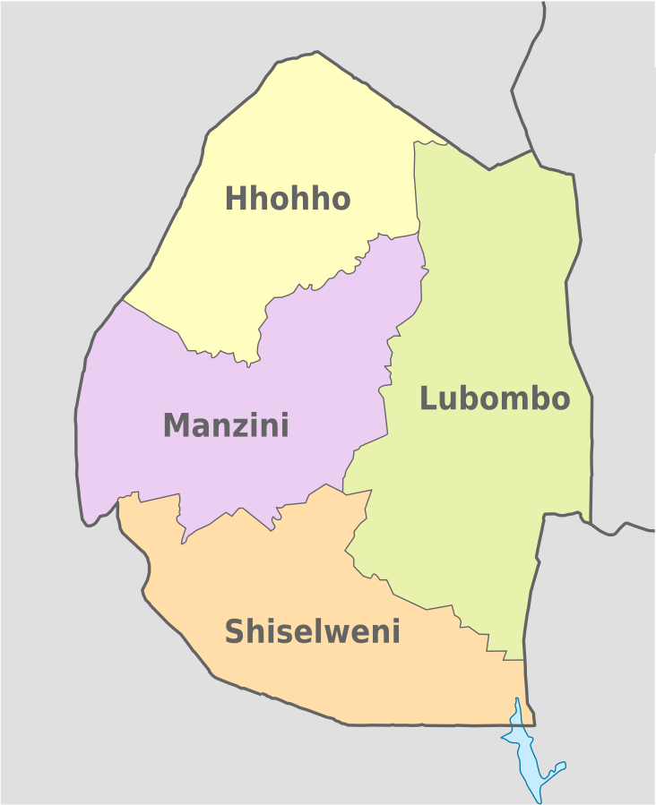 Map of administrative divisions of Eswatini